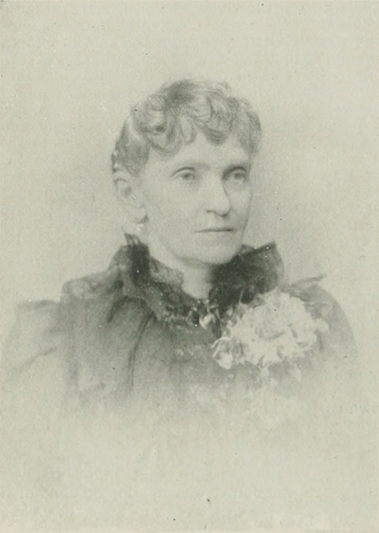 image from File:A woman of the century.djvu published 1893